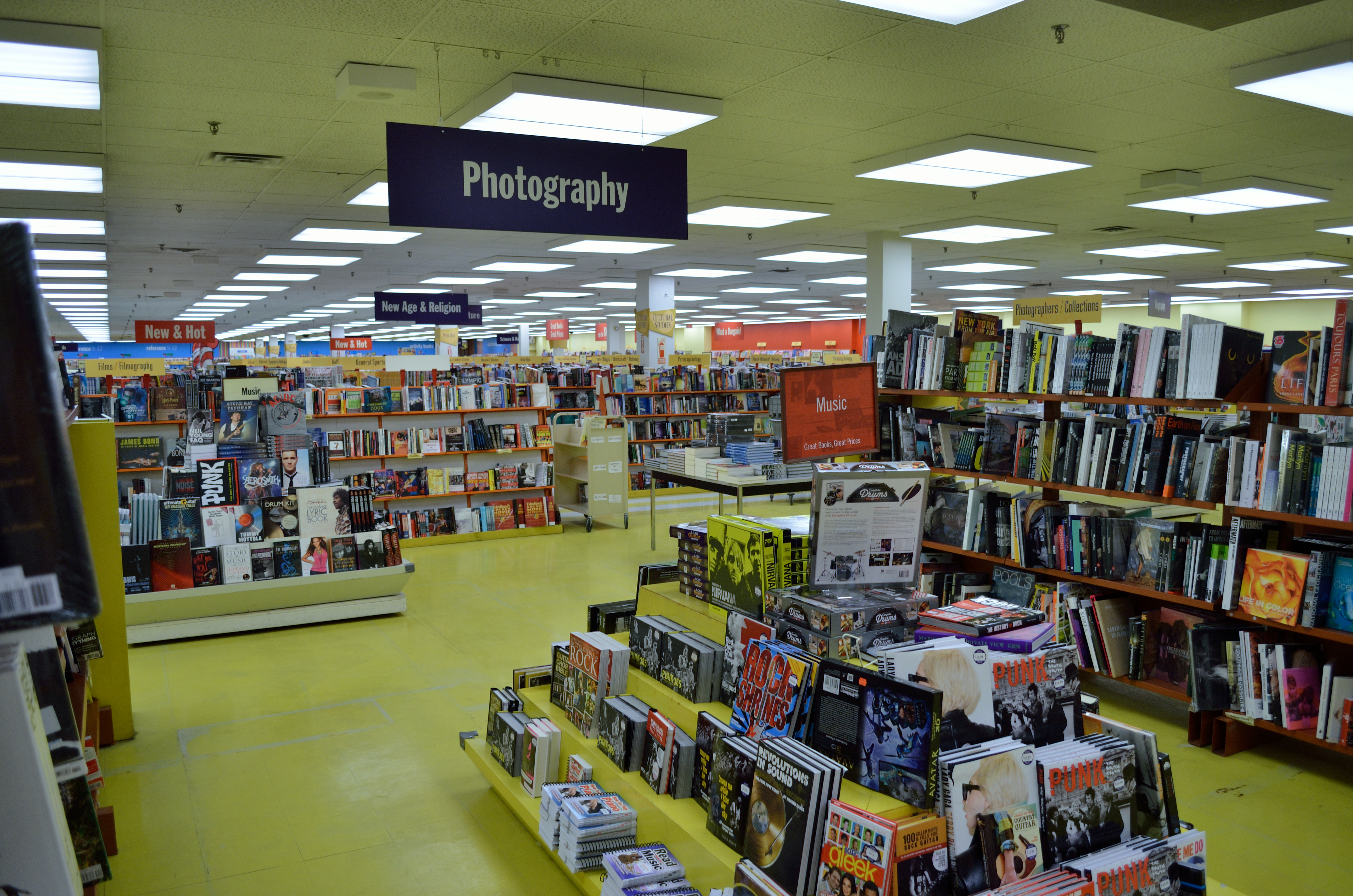 Inside World Biggest Bookstore.